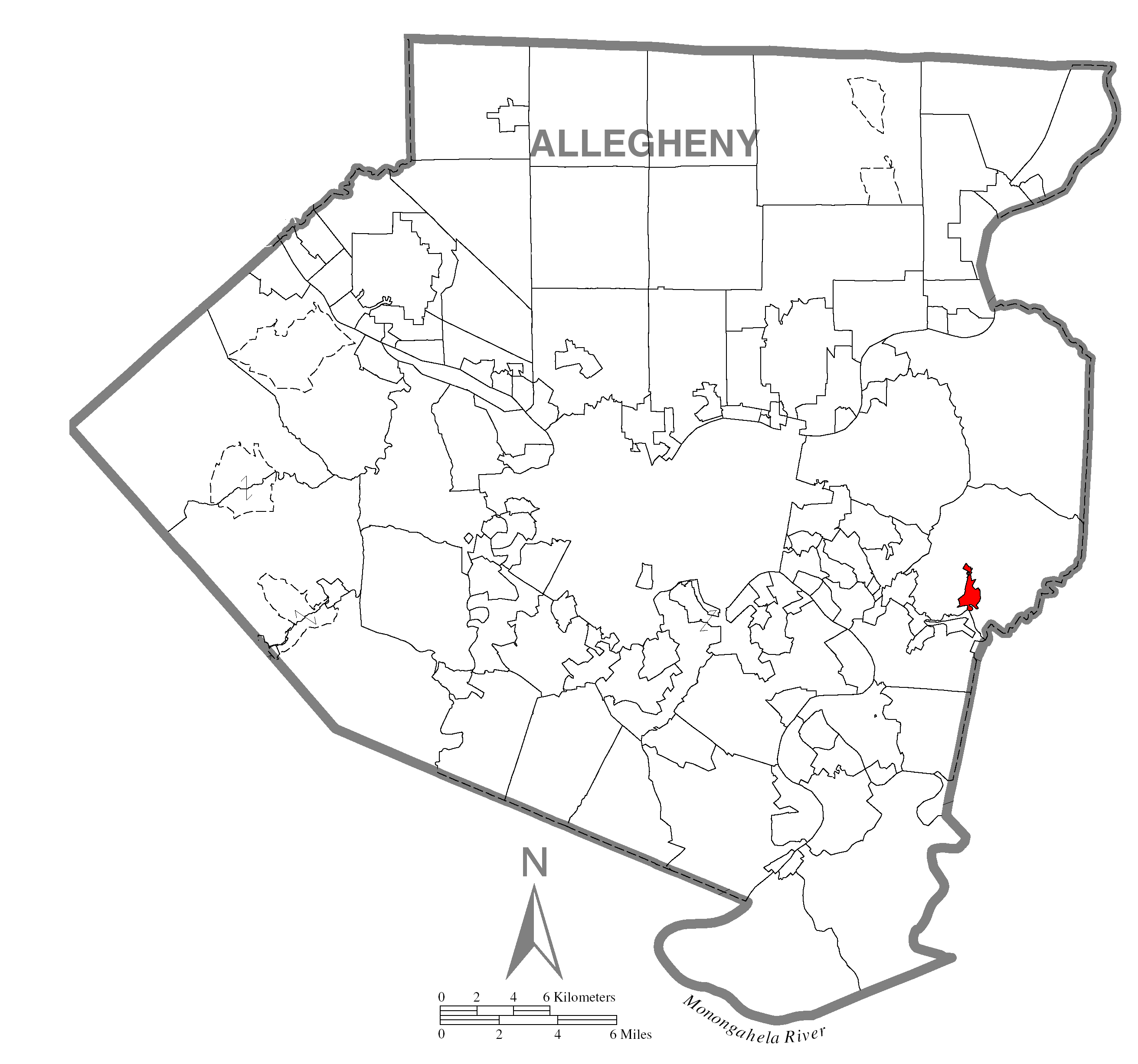 A map of Allegheny County showing Pitcairn, Pennsylvania (alternate) highlighted on the map.